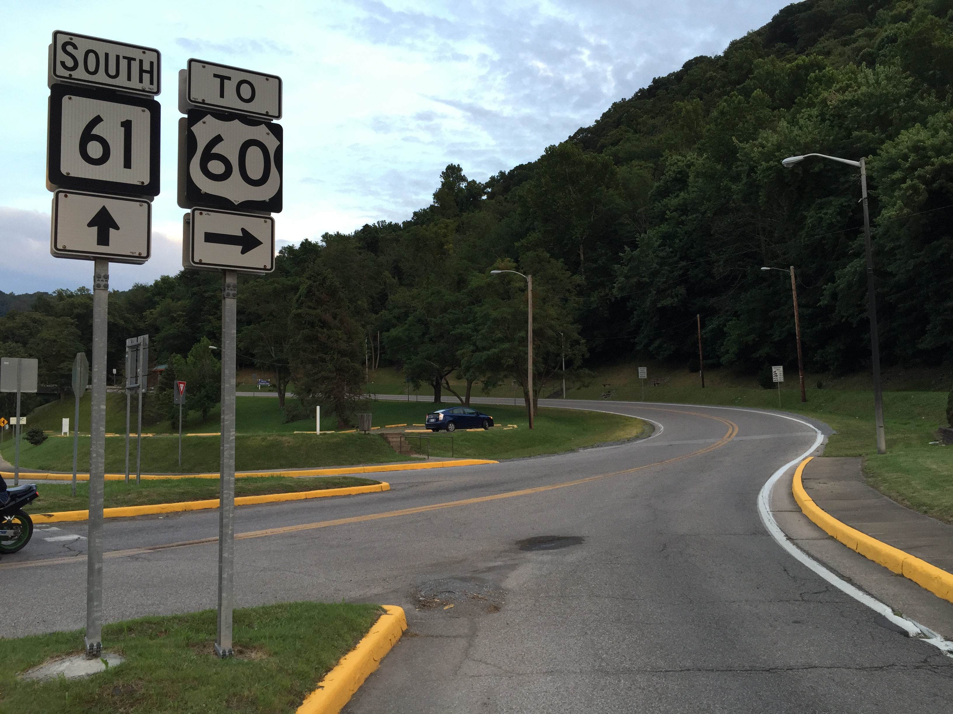 View north along West Virginia State Route 6 (Montgomery Bridge) at West Virginia State Route 61 (Fayette Pike) in Montgomery, Fayette County, West Virginia